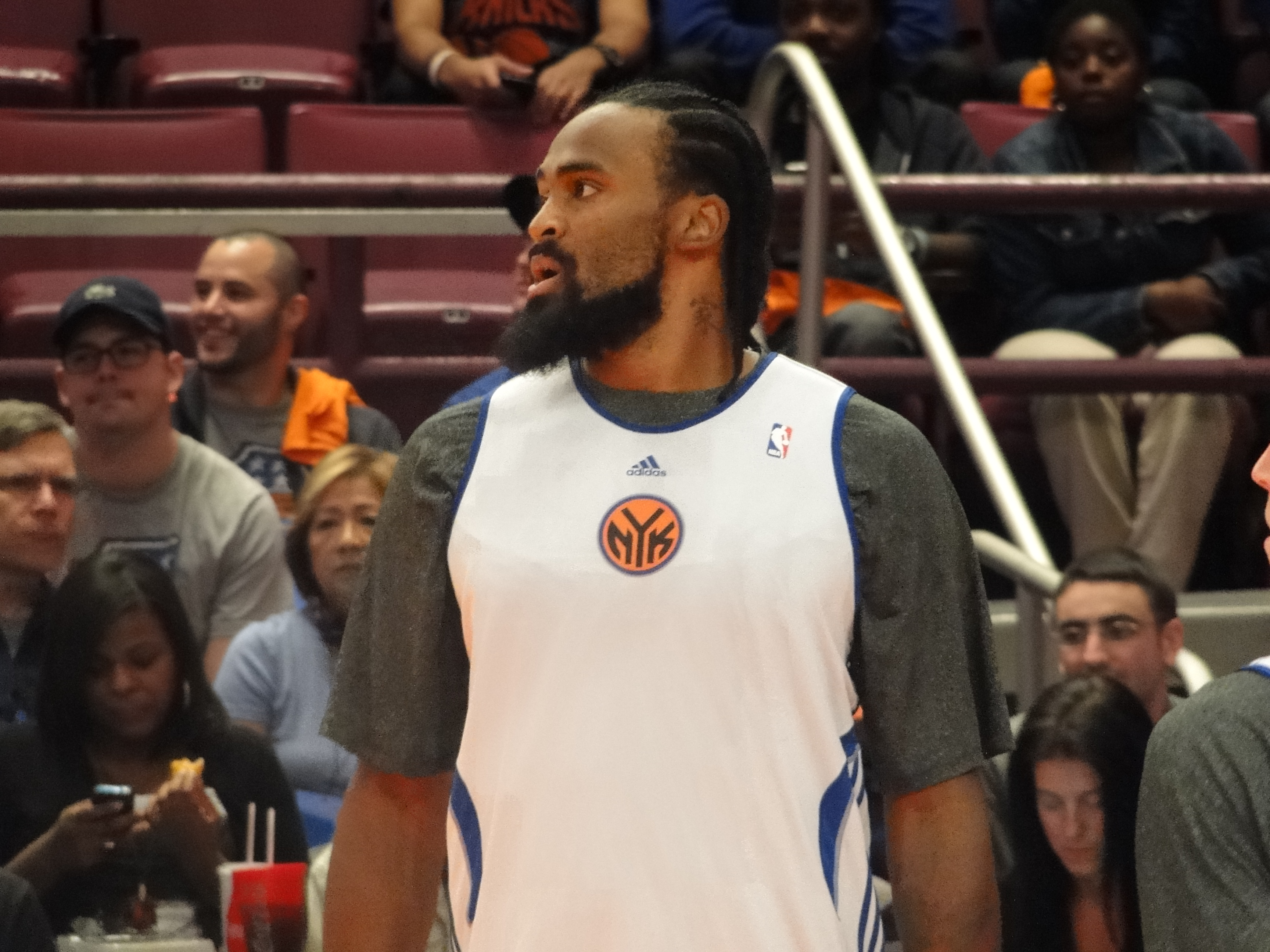 Ronny Turiaf at the New York Knicks' open practice session in 2010.